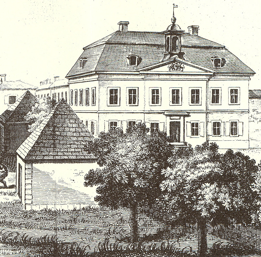 The old town hall in Örebro, Sweden, about 1760